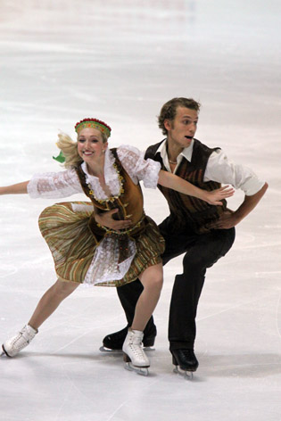 Katherine COPELY & Deividas STAGNIUNAS (LTU) at the 2009 Nebelhorn Trophy. OD - folk